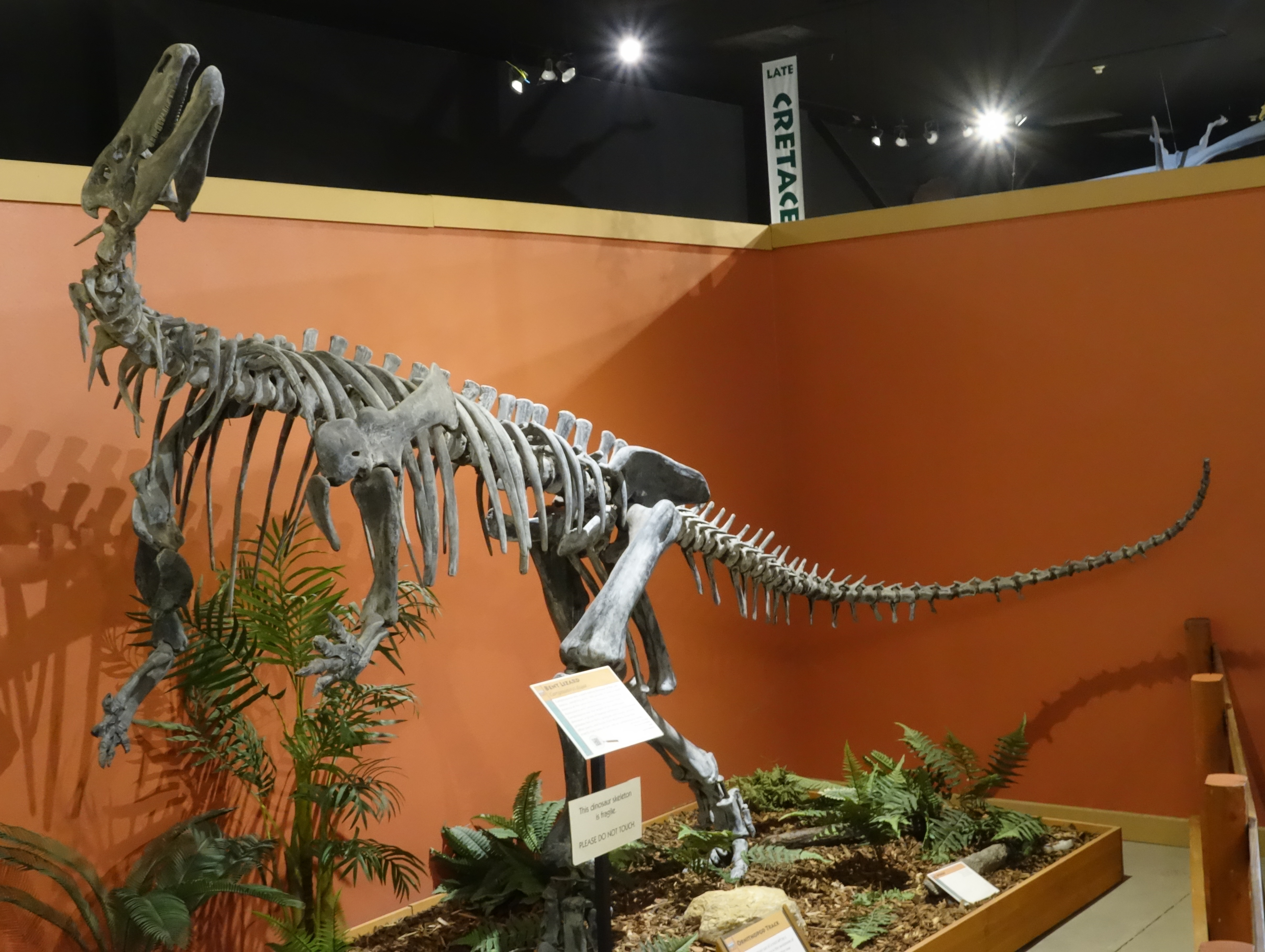 Mounted skeletal cast of Camptosaurus, on display at the Museum of Western Colorado’s Dinosaur Journey Museum in Fruita, Colorado